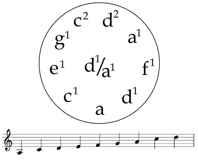 Scale of example handpan